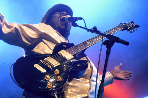 American blues guitarist and keybooard player Lucky Peterson live at La Begude de Mazenc ( France )